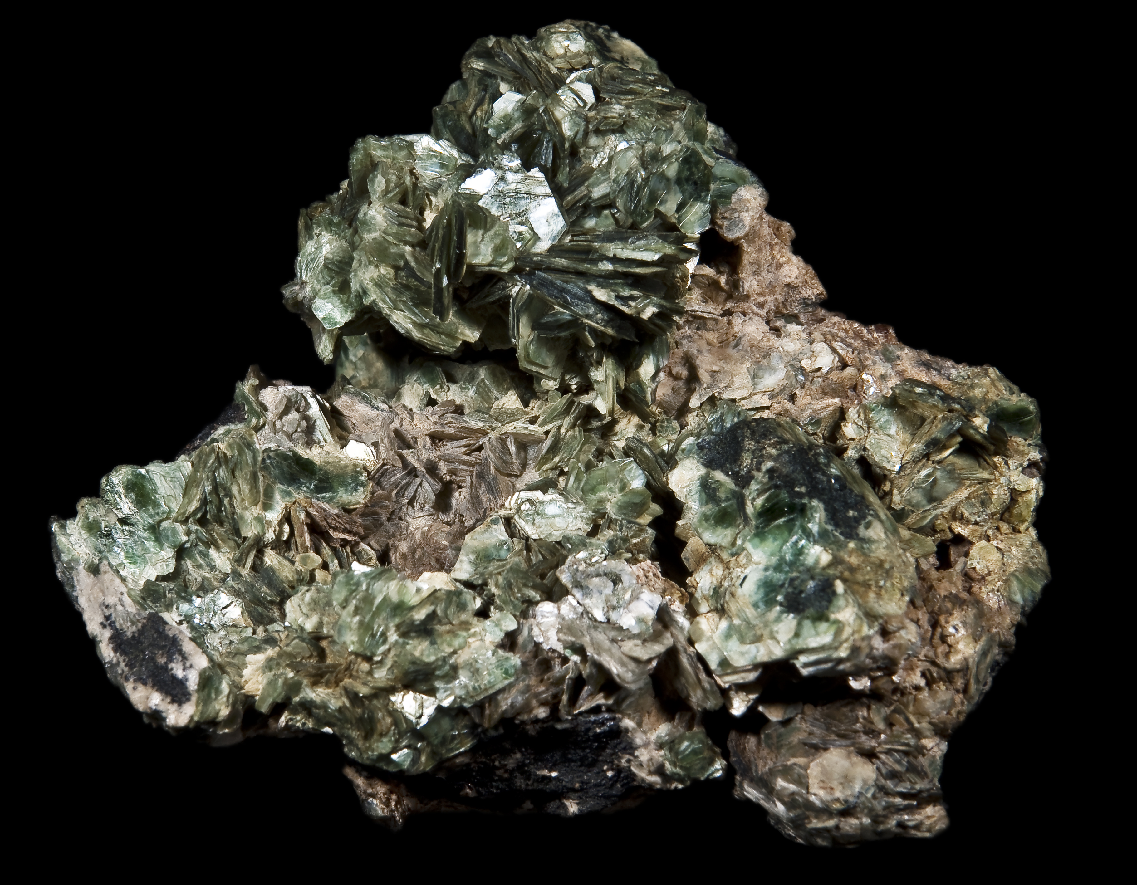 Zinnwaldite Deposit topotype - CINOVEC (ZINNWALD), ERZGEBIRGE, BOHEMIA - Czech republic (6 × 6 cm).